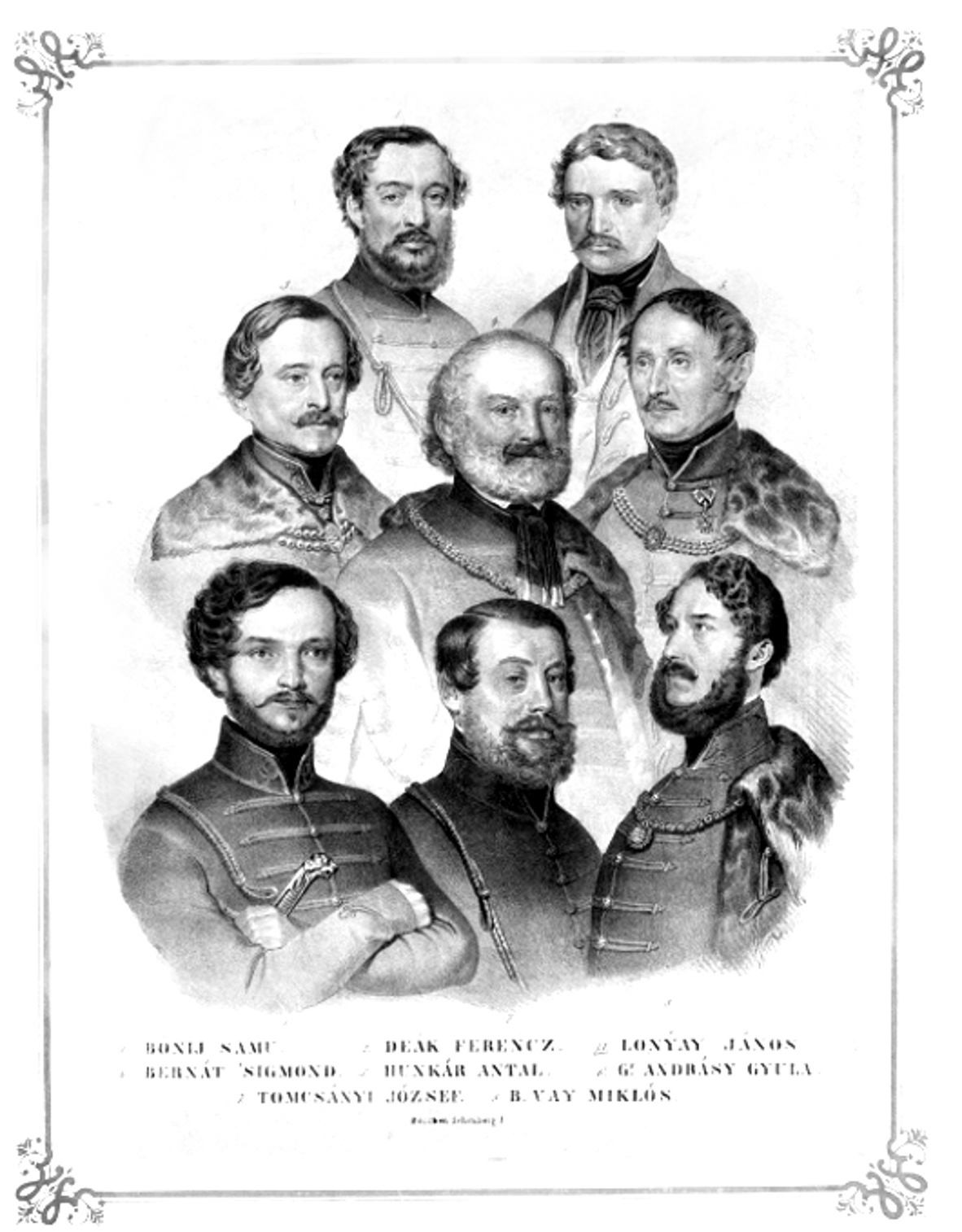 Főrendiházi képviselőcsoport Andrassy Gyula, Bónis Sámuel, Deák Ferenc, Vay Miklós